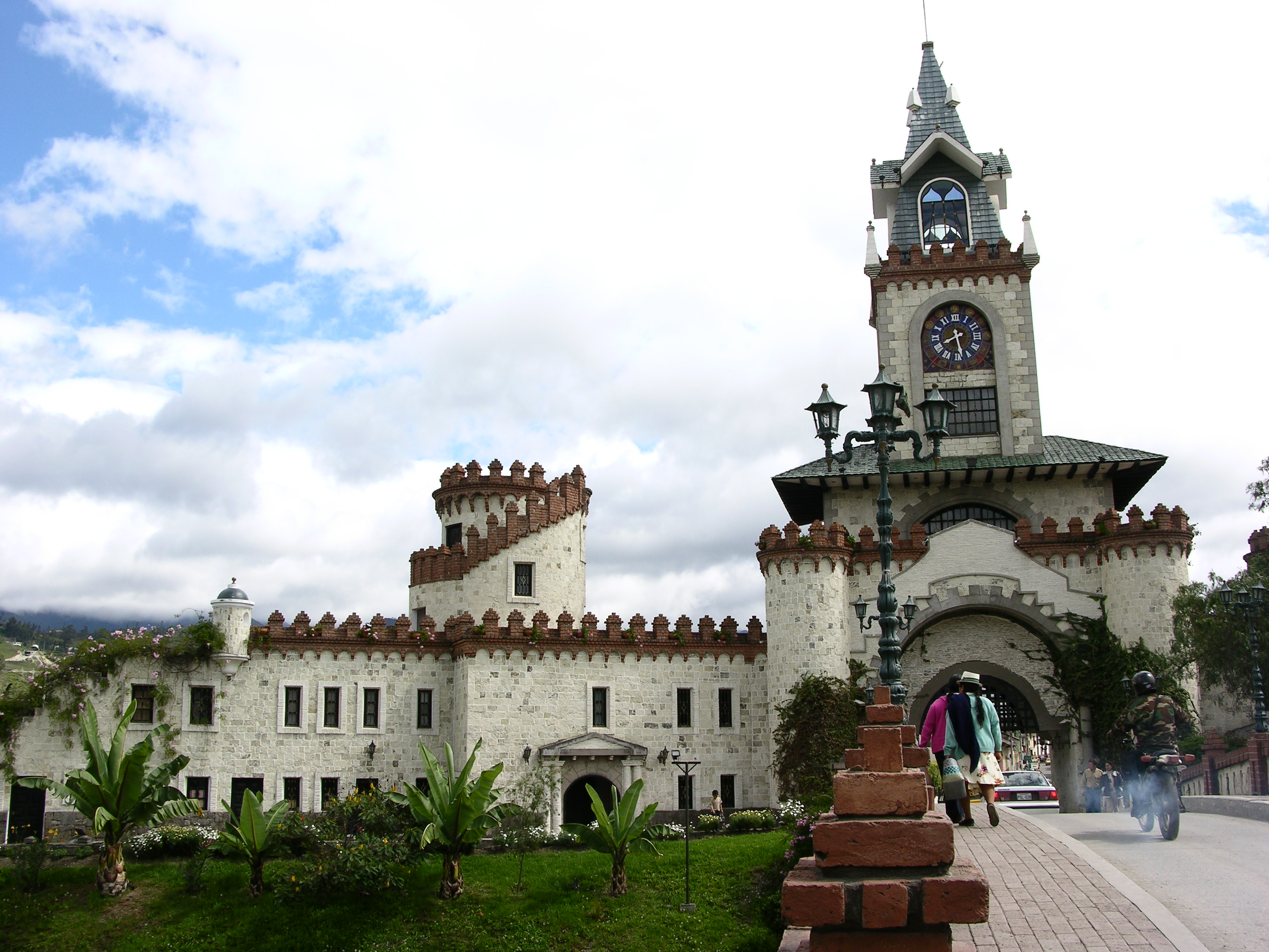 I took this photo in January while visiting Loja city.